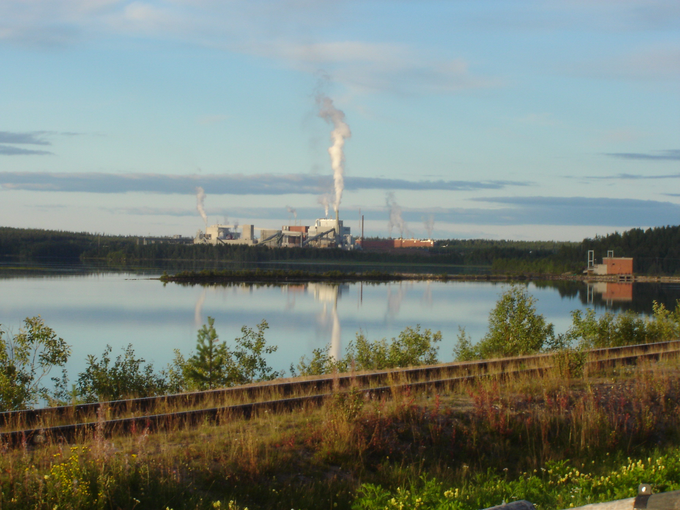 Kemijärvi pulp mill